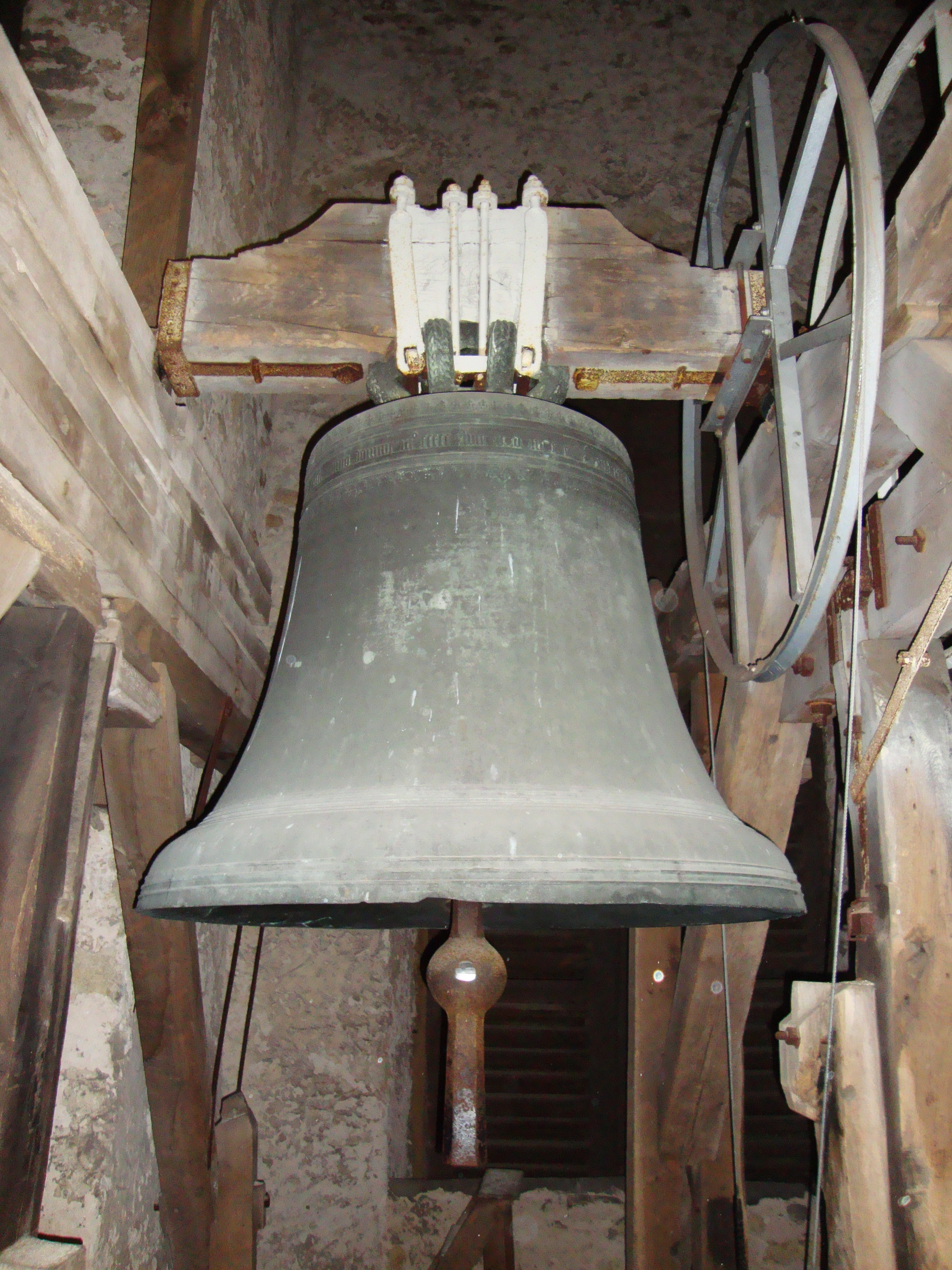 Oerlinghausen, Alexander's church: Bell Sanderus from 1547